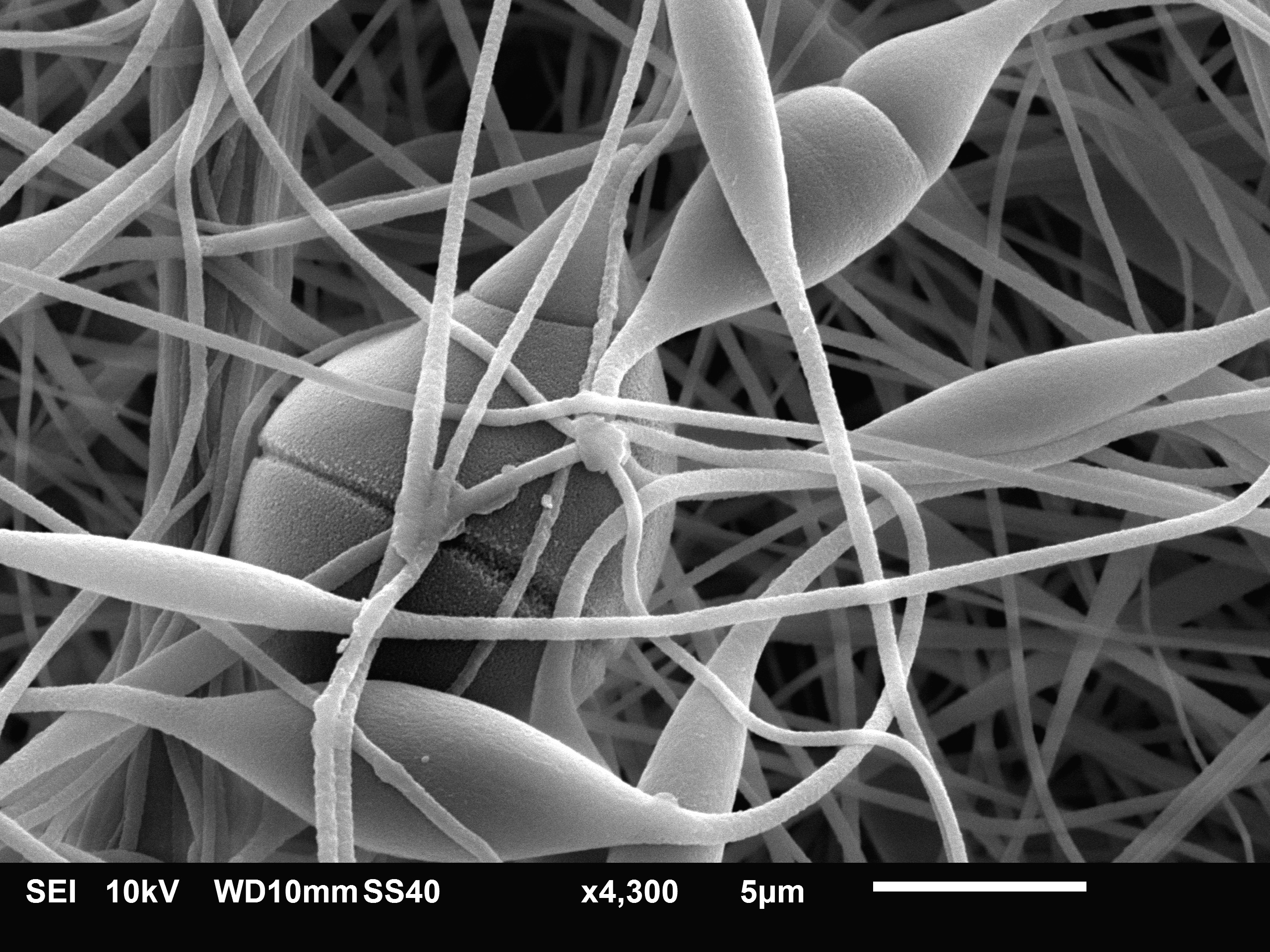 Scanning electron microscopy image of electrospun polyethersulfone nanofibres with visible beads.